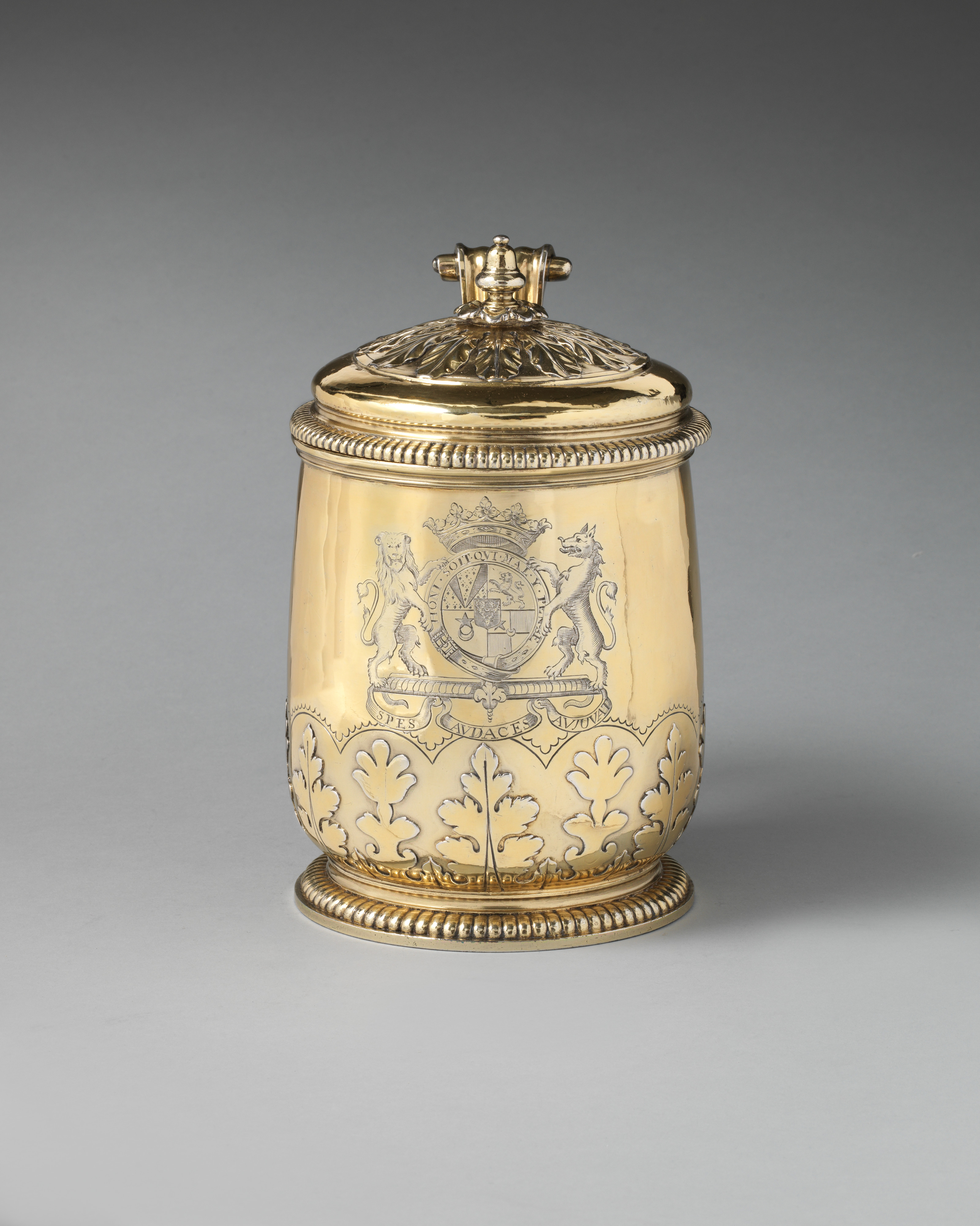 The arms, supporters, coronet, and motto are those of John Holles, Duke of Newcastle.